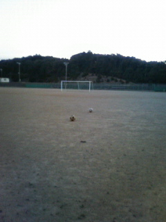 This is a school ground in Shima,Mie,Japan.